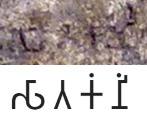 King Satakamni in the Hathigumpha inscription (middle of Line 4)